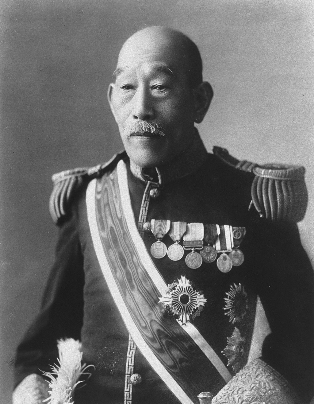 Portrait of Kiyoura Keigo (清浦奎吾, 1850 – 1942)